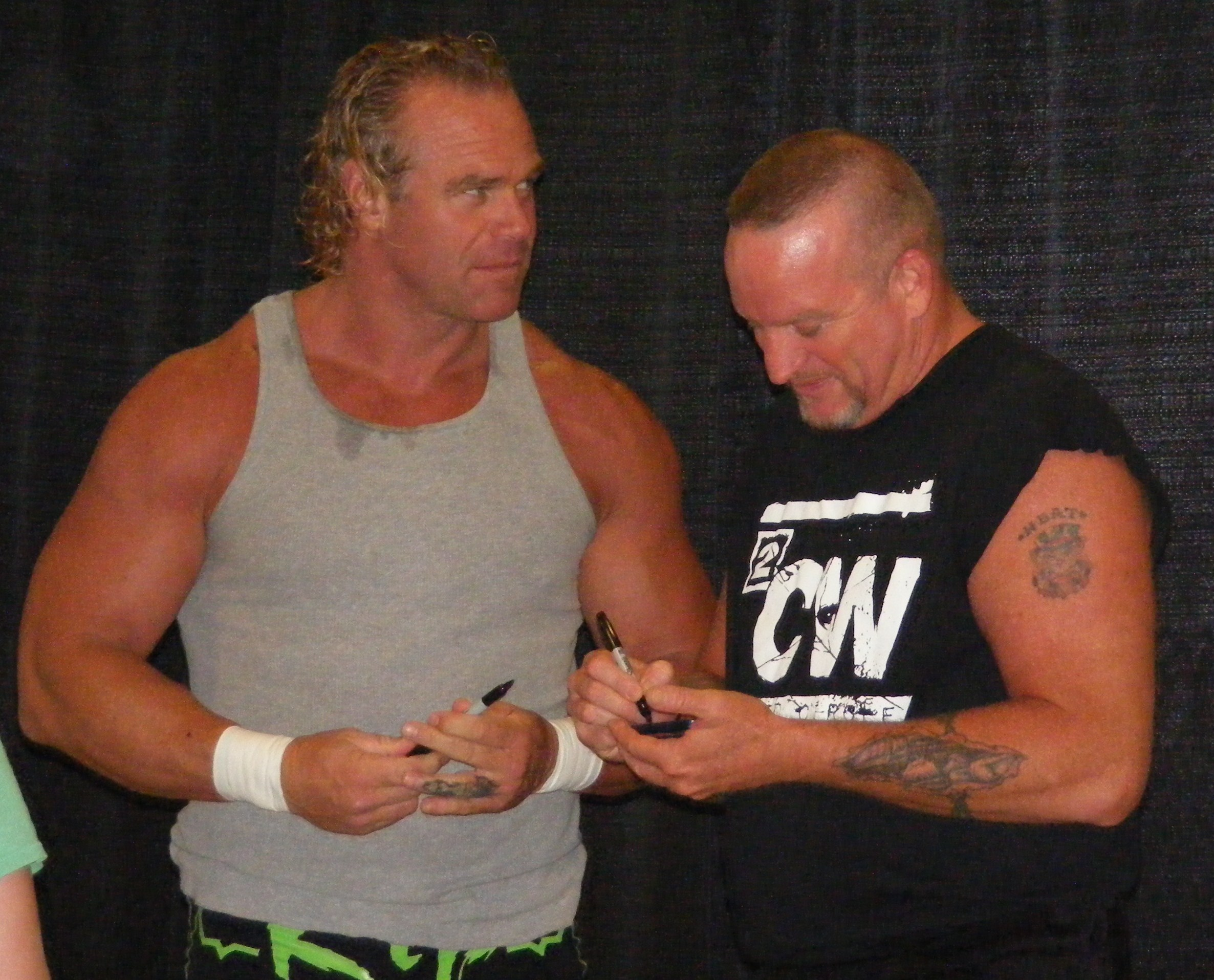 The New Age Outlaws of Monty Sopp (left; aka Billy Gunn or Kip James) and Brian Gerard James (right; aka BG James or the Road Dogg Jesse James) at a 2CW show in Rome, New York on September 16, 2011.